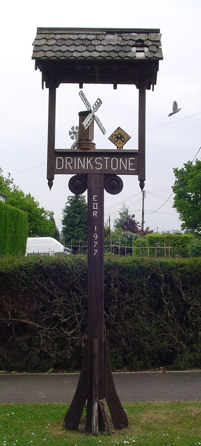 Signpost in Drinkstone